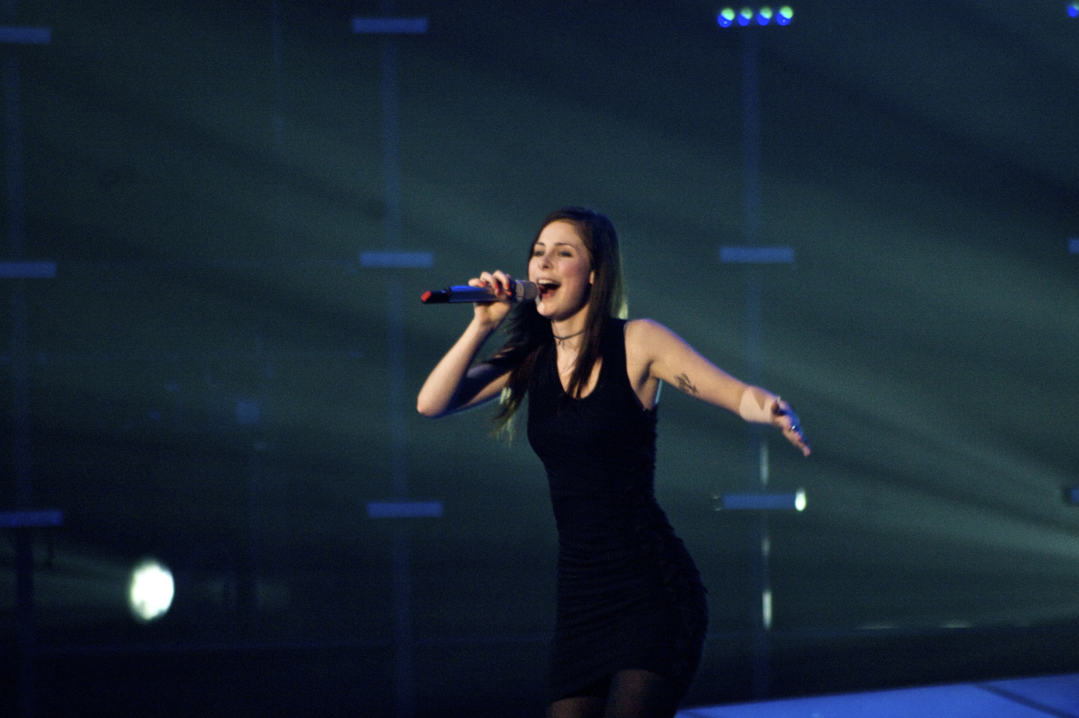 Germany's Eurovision Song Contest participant Lena Meyer-Landrut onstage in the Telenor Arena in Fornebu (during the rehearsals)